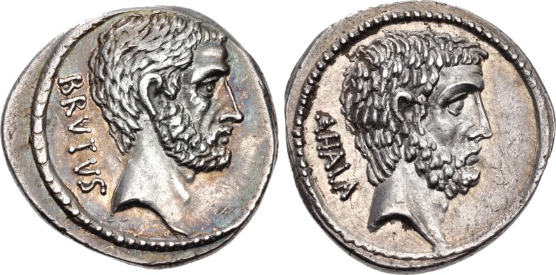 Q. Servilius Caepio (M. Junius) Brutus 54 BC. AR Denarius (19mm, 3.59 g, 9h). Rome mint. Head of L. Junius Brutus right / Head of Caius Servilius Ahala right. Crawford 433/2; Sydenham 907; Junia 30. EF, iridescent toning, traces of deposits, faint scratches under tone on obverse, minor flan flaw on reverse.